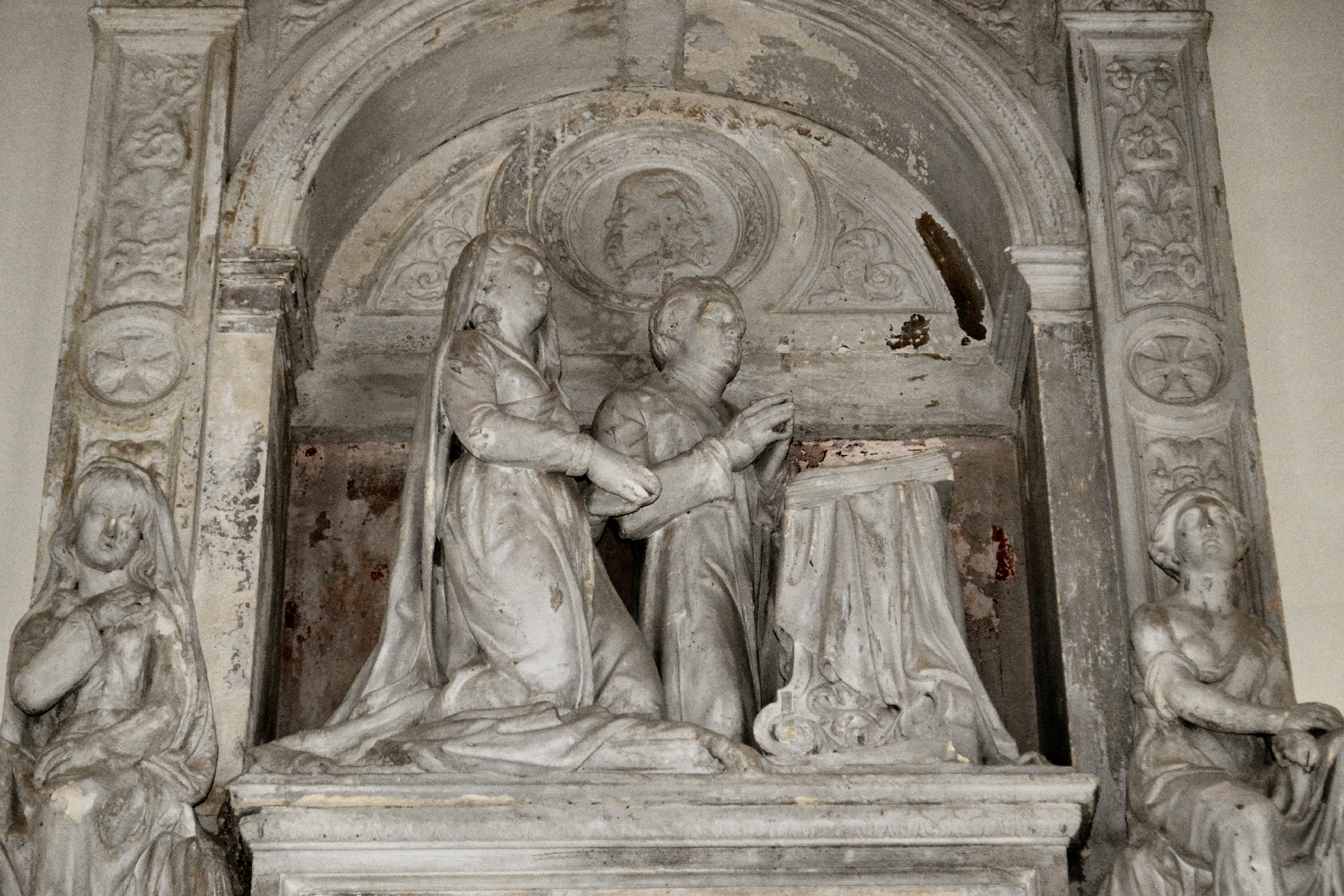 St Mary Magdalene's, Richmond, Memorial to Mary Ann Yates, detail